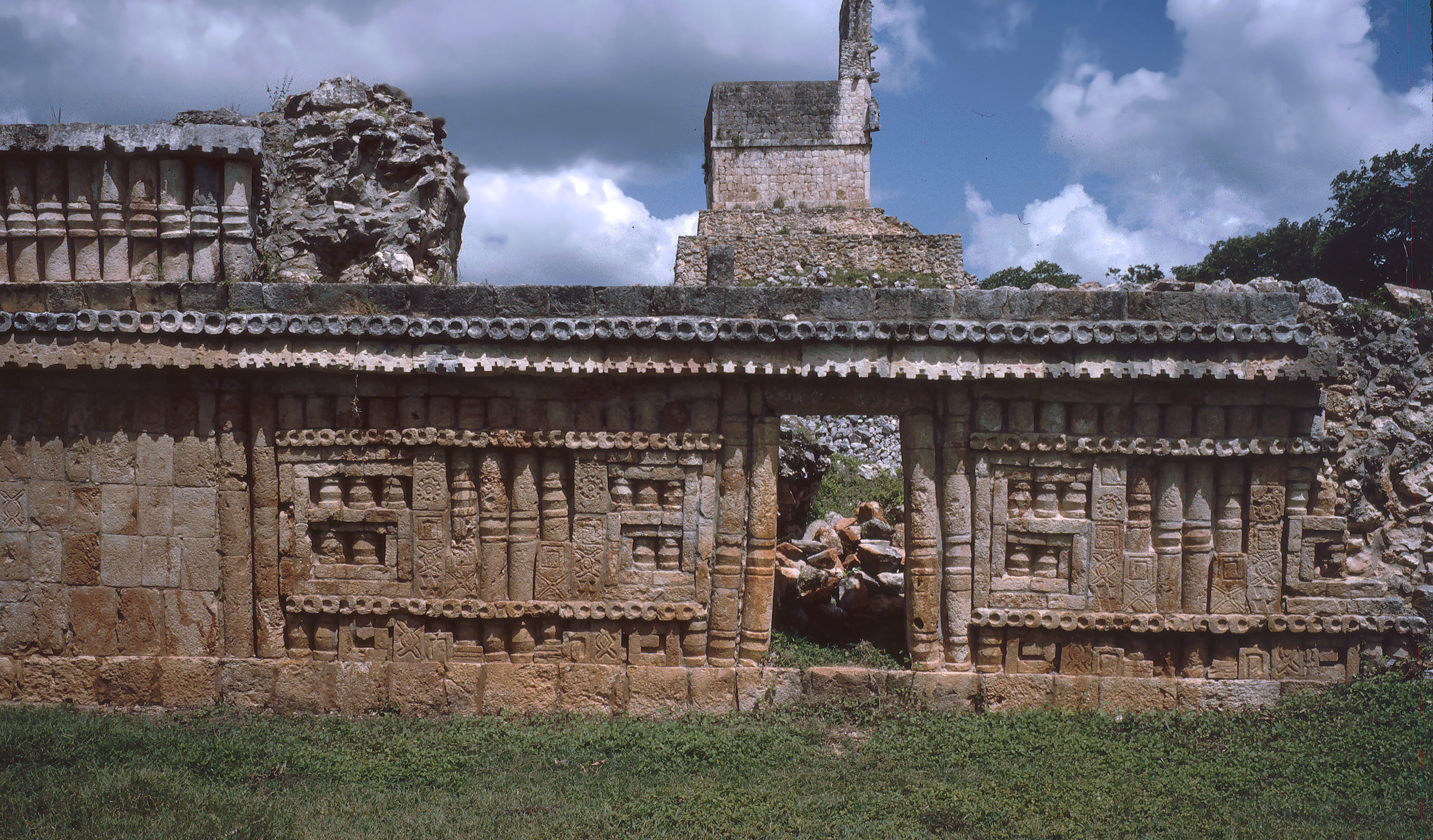 Labná, Yucatan, Mexico: east wing of palace..